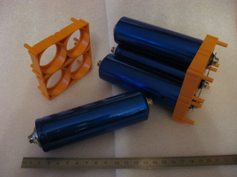 LiFePo4 cells for selfmade battery packs